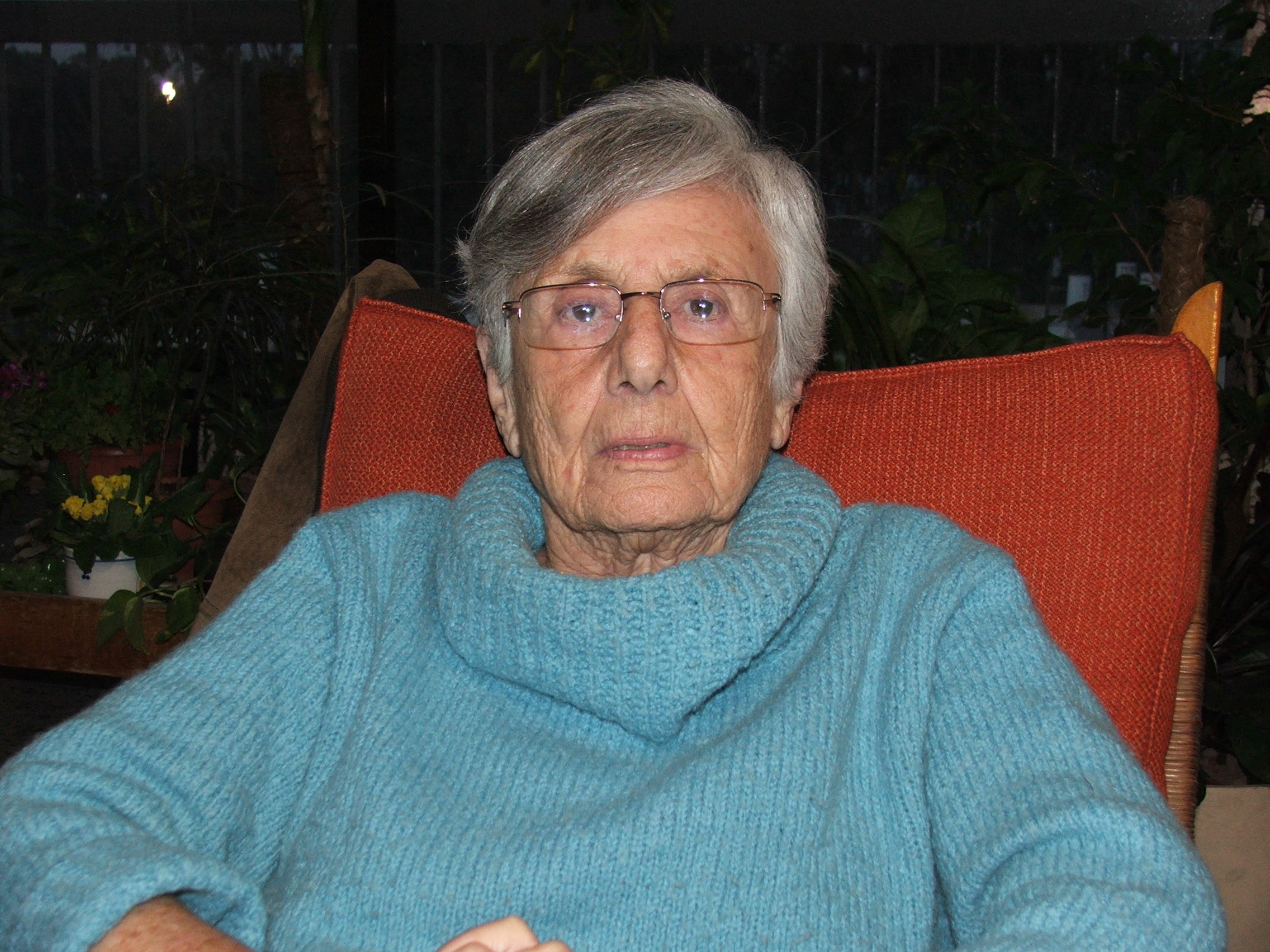 Ruth Bondy, Holocaust survivor, an Israeli journalist, writer in both Czech and Hebrew and translator of Czech literature into Hebrew.